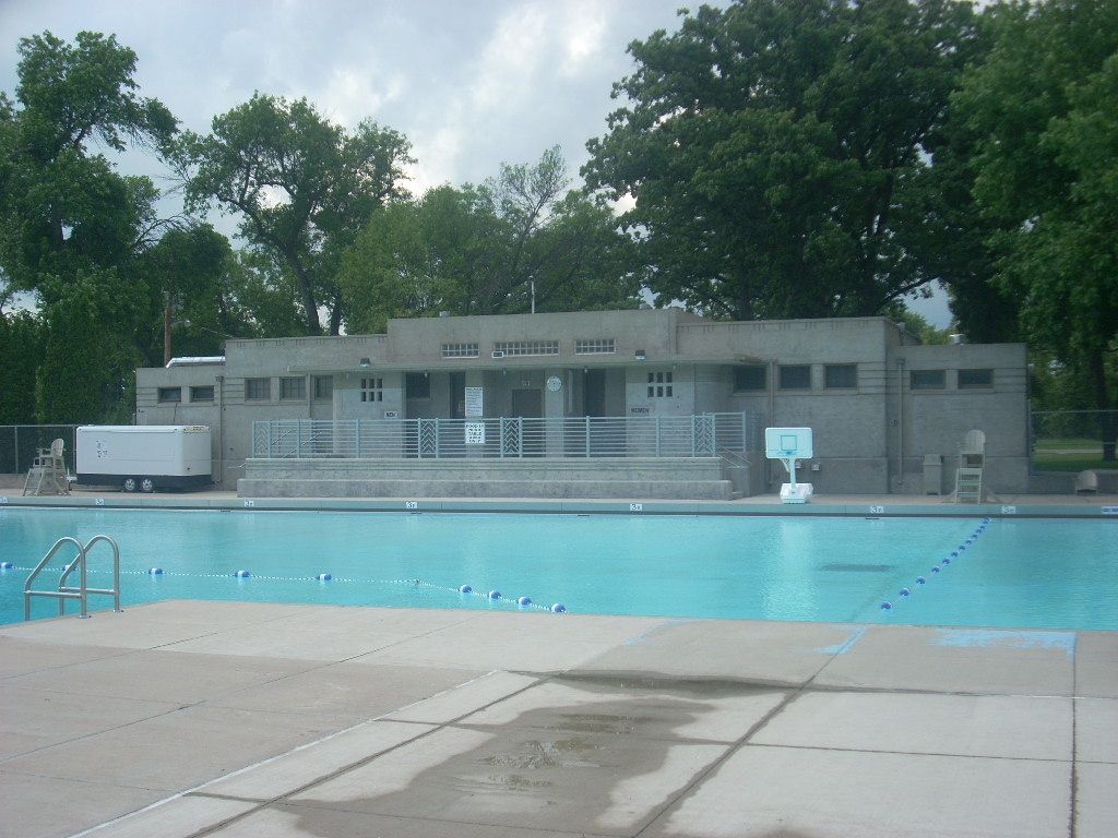 Riverside Pool and pool building in Grand Forks, North Dakota, contributing elements of the Grand Forks Riverside Neighborhood Historic District.